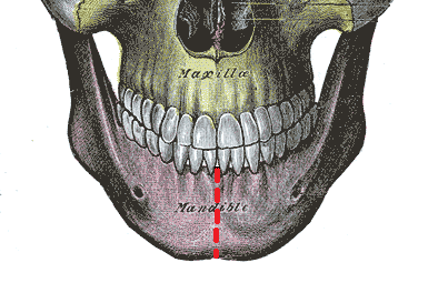 Edit of File:Gray190.png, cropped and added red dotted line to show mandibular symphysis